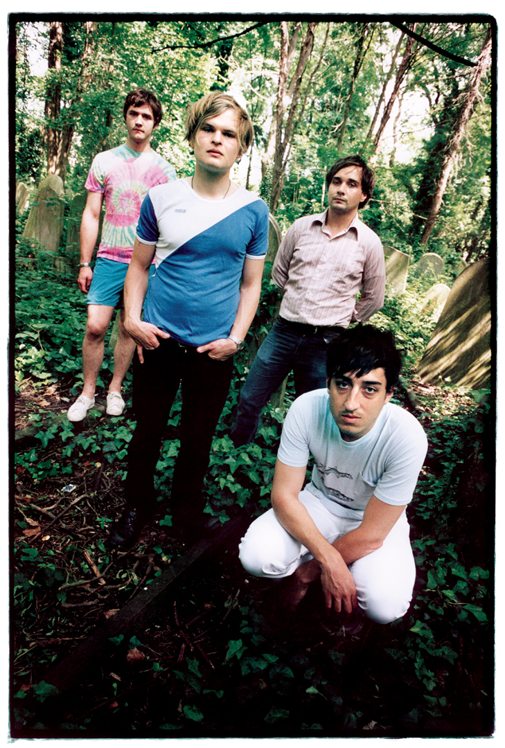 Grizzly Bear band members posing for the camera